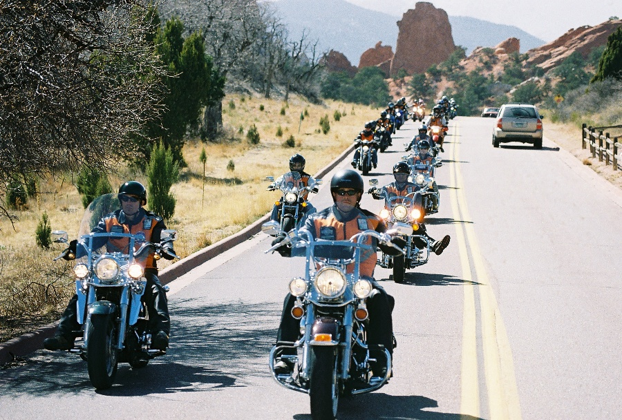 43rd sustainment brigade motorcycle club ride